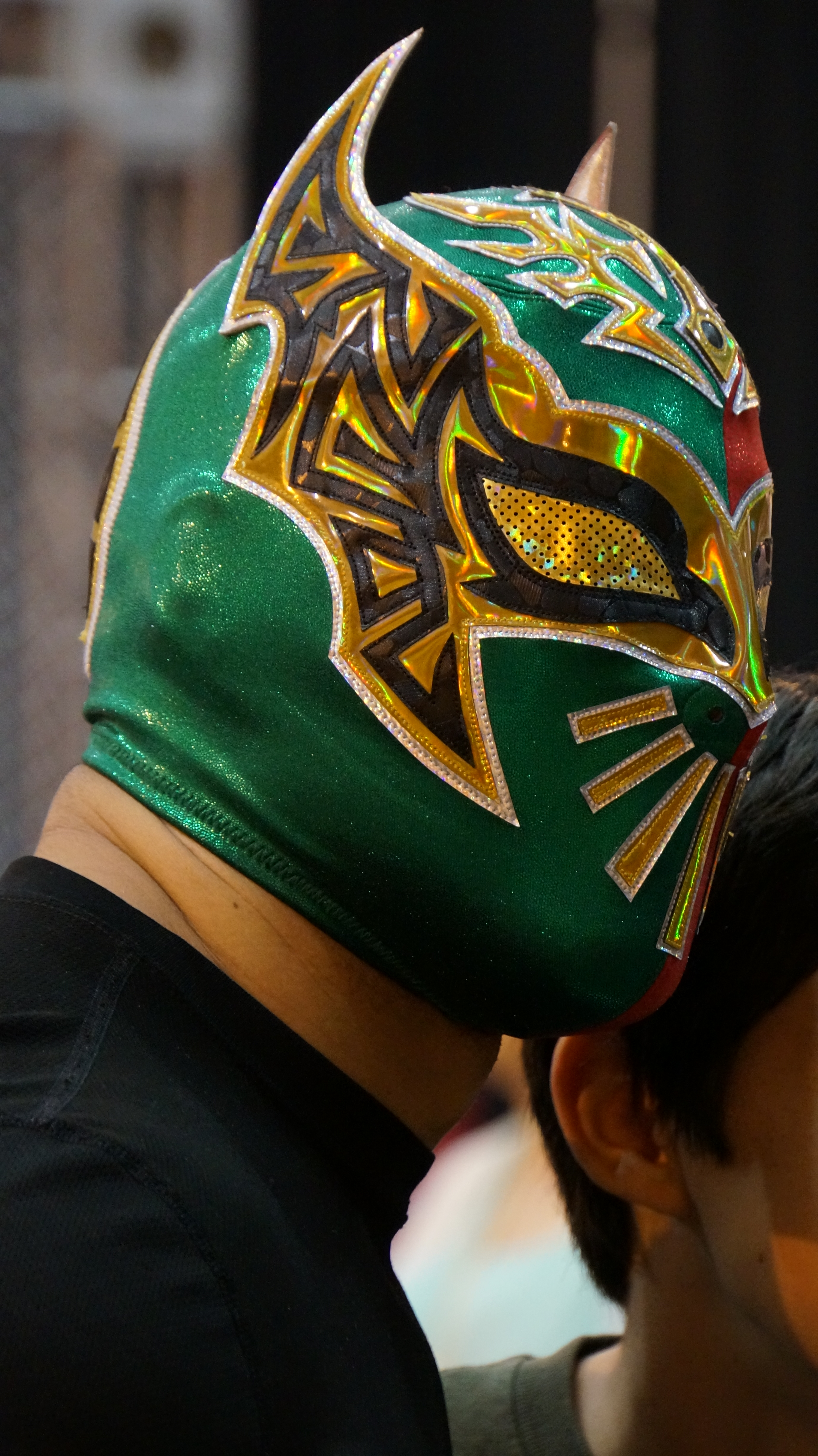 Sin Cara (Jorge Arias) poses for the fans at WWE Axxess. Originally taken 4/4/2014.